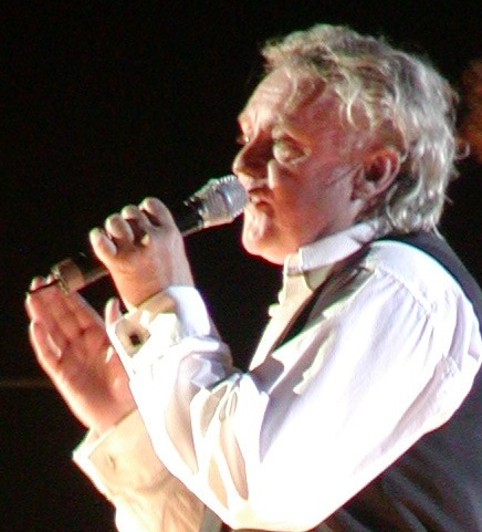 Roger Taylor @ Queen + Paul Rodgers live in Frankfurt, Germany